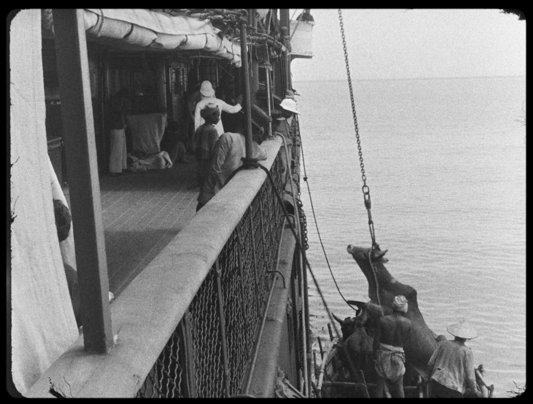 Still from a film made by Gabriel Veyre, in Tonkin (Vietnam), between April 1899 and March 1900. Screened on November 18th 1900 in Lyon (France) under the title "Through Indochina (1st series). Bull being loaded on a ship" (source: "Le Progrès", 20th November 1900). Item number 1286 in the Lumière film catalog.